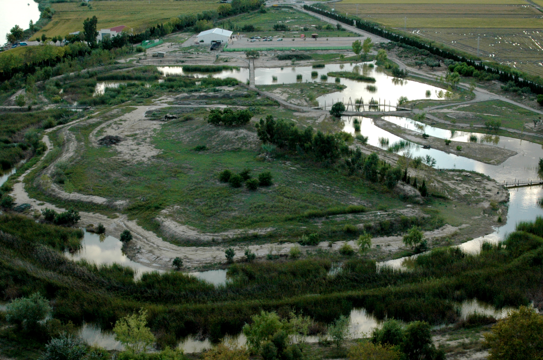 Aerial view of Deltarium's lagoon